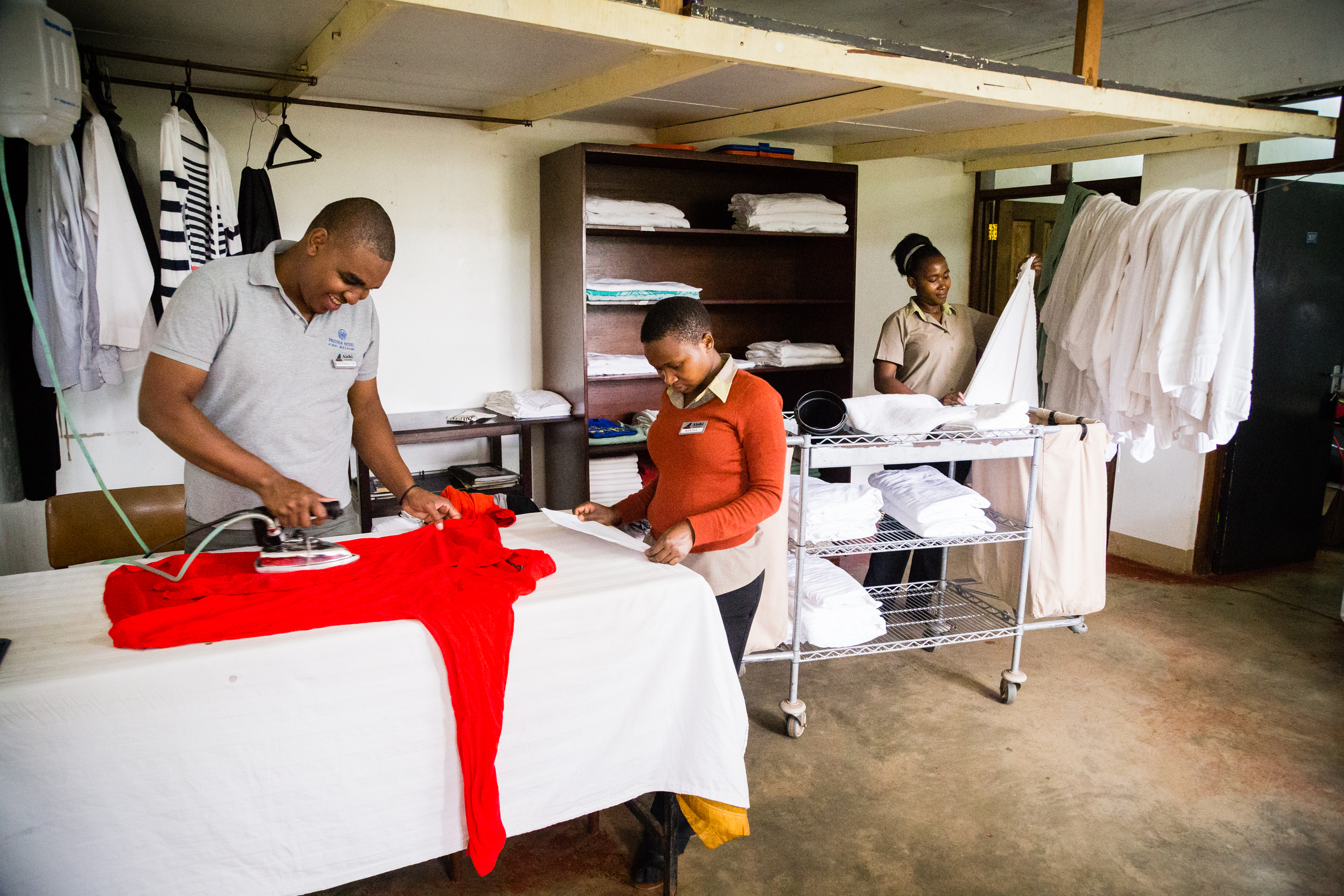 This is an image of "African people at work" from Tanzania